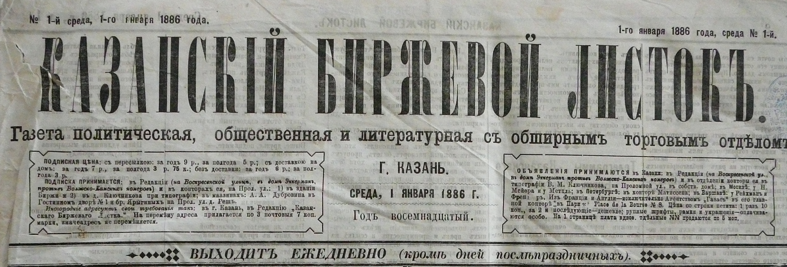 Фрагмент первой страницы газеты «Казанский Биржевой Листок» (№ 1 от 1 января 1886 года).